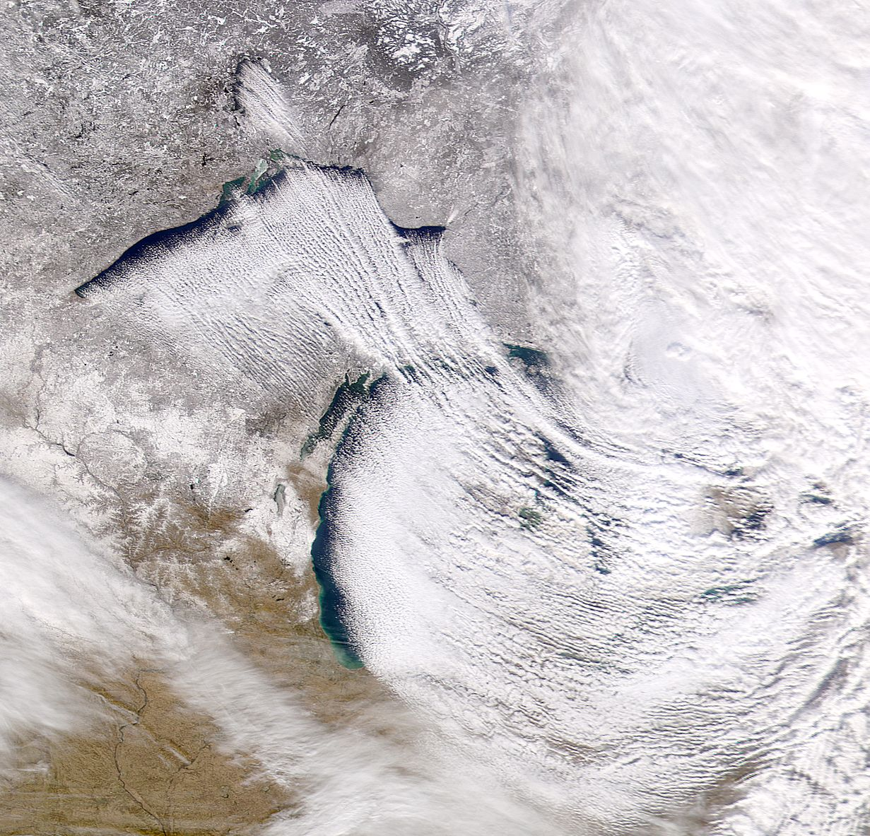 On December 5, 2000, SeaWiFS acquired this fabulous image of lake-effect snow occurring over the Great Lakes region. Lake-effect snow occurs when cold dry air passes over a larger warmer lake and picks up moisture and heat. Clouds build overhead and eventually develop into snow showers as they move downwind. In this image, the wind is seen to be moving from the north-west. It picks up moisture from Lakes Nipigon, Superior, and Michigan and deposits this as snow further downwind.